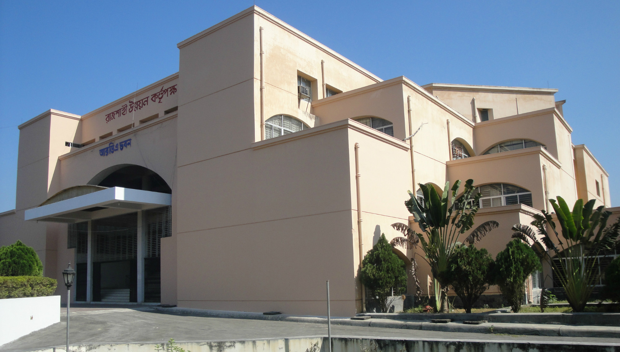 Rajshahi Development Authority Building